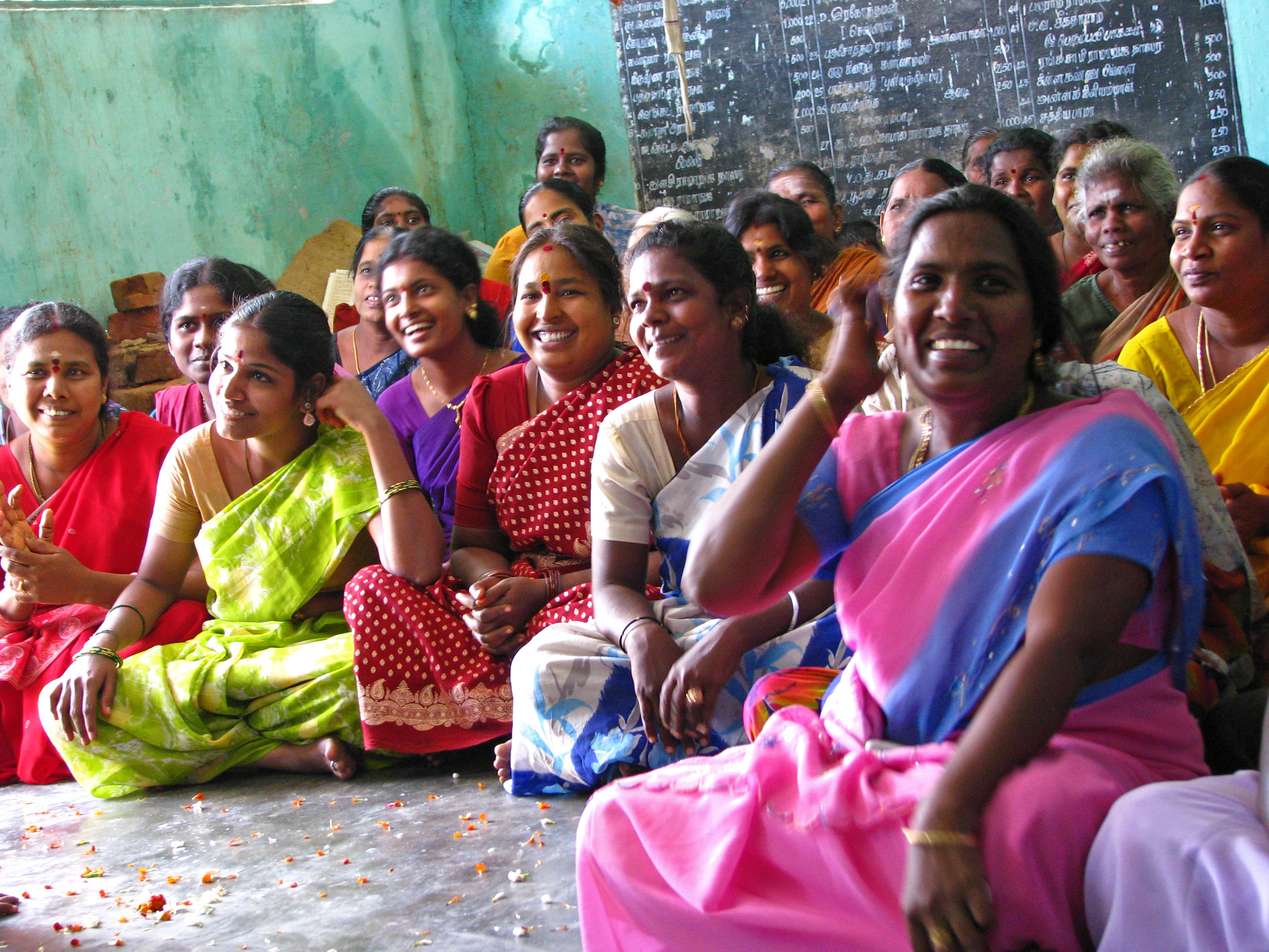 Rural women in their richly coloured saris meeting as members of self-help groups (SHGs). Within their SHGs, these women now access micro-finance loans, hold their own savings and start successful micro- and small-scale businesses. Their newfound confidence and authority shows clearly in their faces and the many questions they ask and how they now drive the change agenda in their villages.